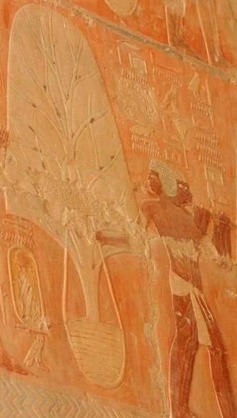 Photograph of a portion of a painted relief showing trees being transported from Punt to Egypt for transplantation; from Deir el Bahari in the Mortuary Temple of Hatshepsut, a pharaoh of the eighteenth dynasty of Ancient Egypt reigning from c. 1479 to 1458 BC